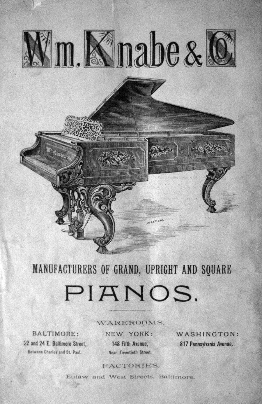 Knabe Piano Advertisement, published in 1889